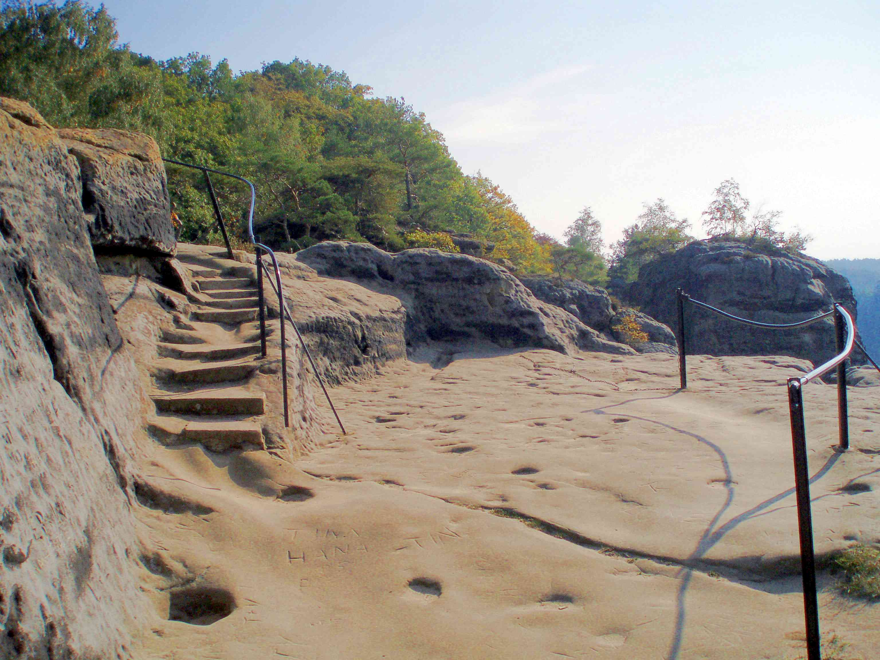 Drábské světničky rock castle near Mnichovo Hradiště, Czech Republic.